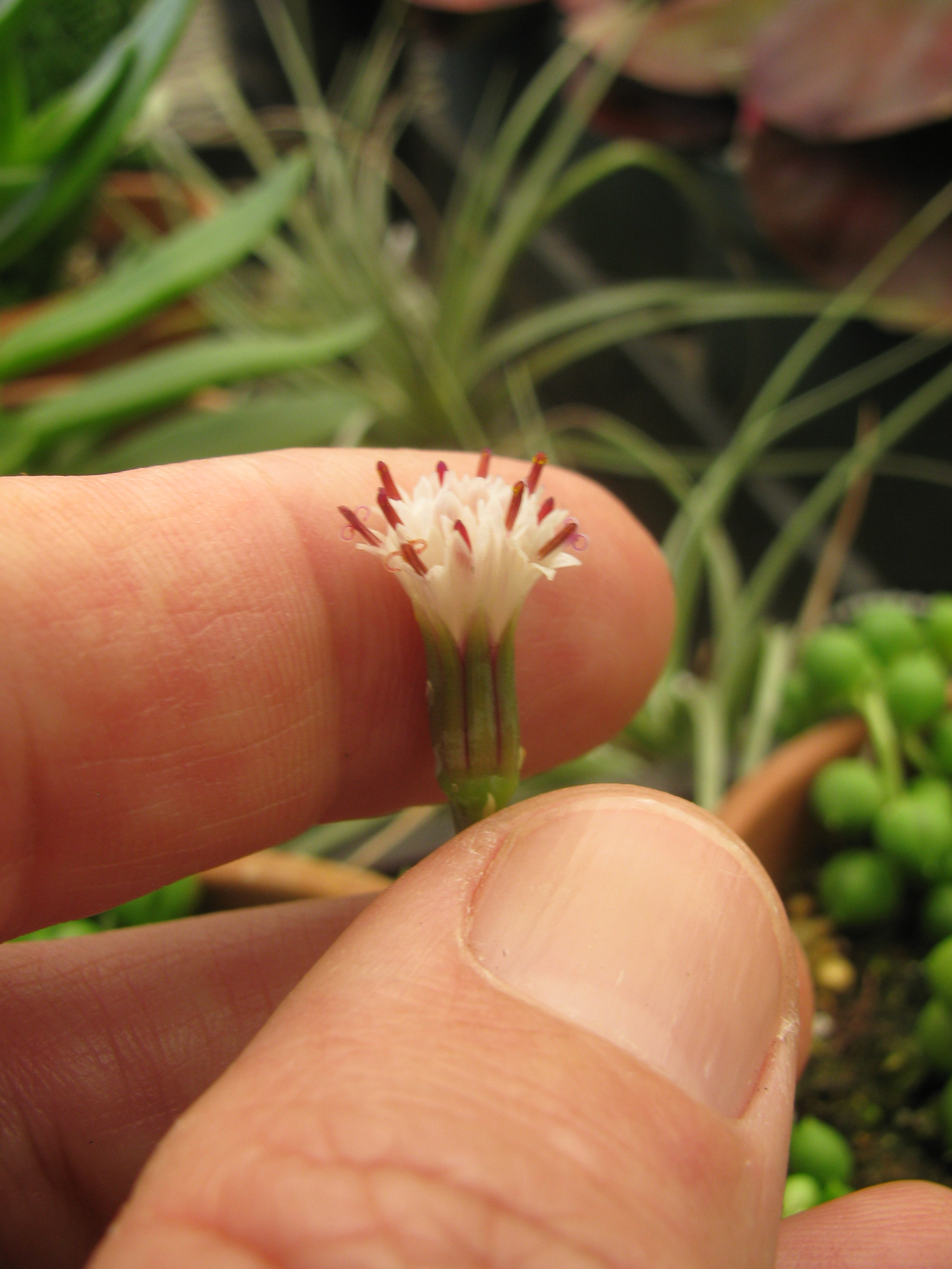 Senecio rowleyanus (Bead plant, string of beads) Flowers at Walmart Nursery Kahului, Maui, Hawaii. June 13, 2012 #120613-9659 Image Use Policy